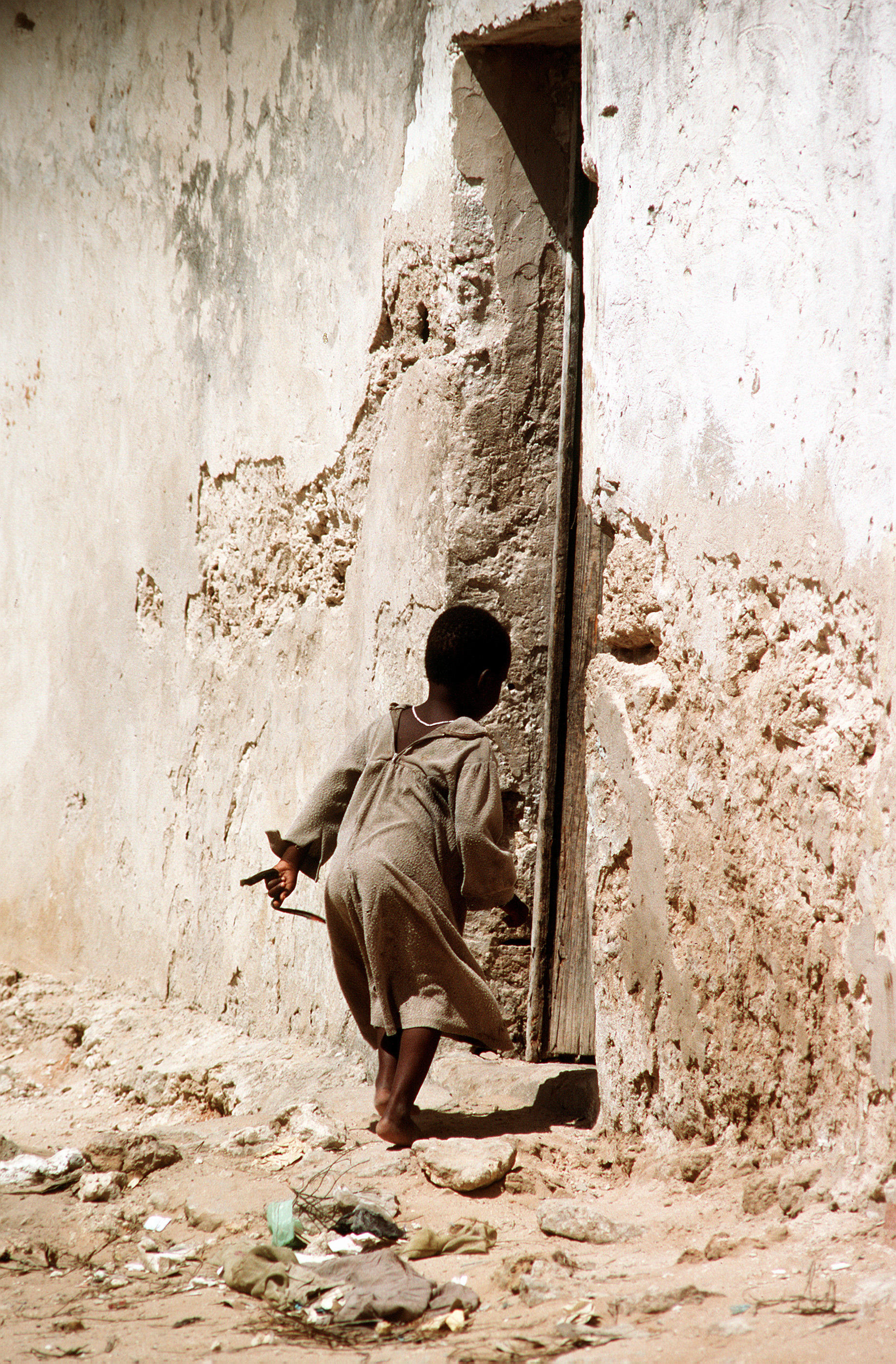 A young Somali child moves through the streets of Mogadishu.